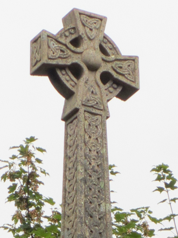 Detail of Memorial Cross